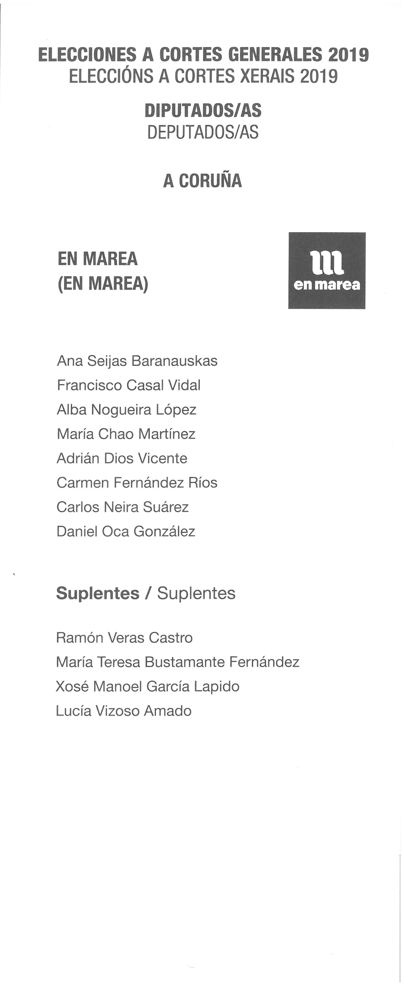 Ballot for Spanish General Elections of April 28th, 2019